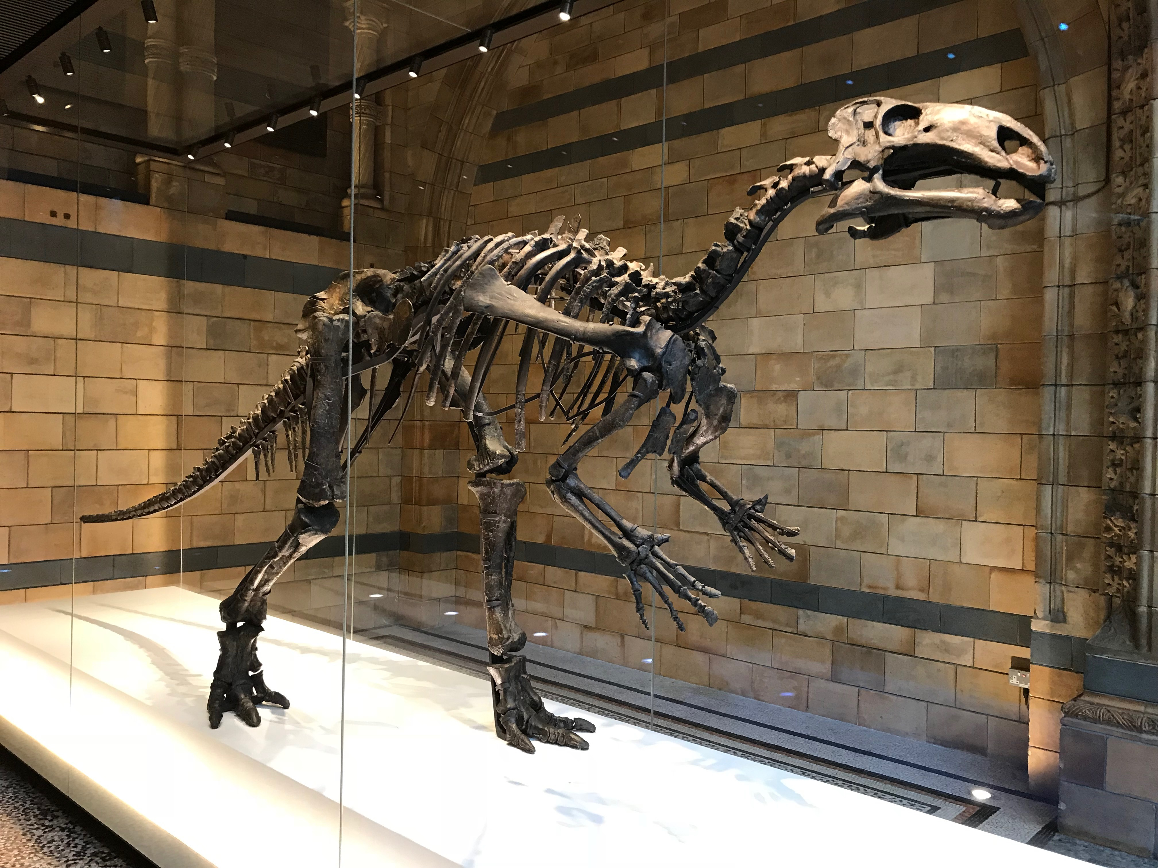 Isle of Wight Mantellisaurus